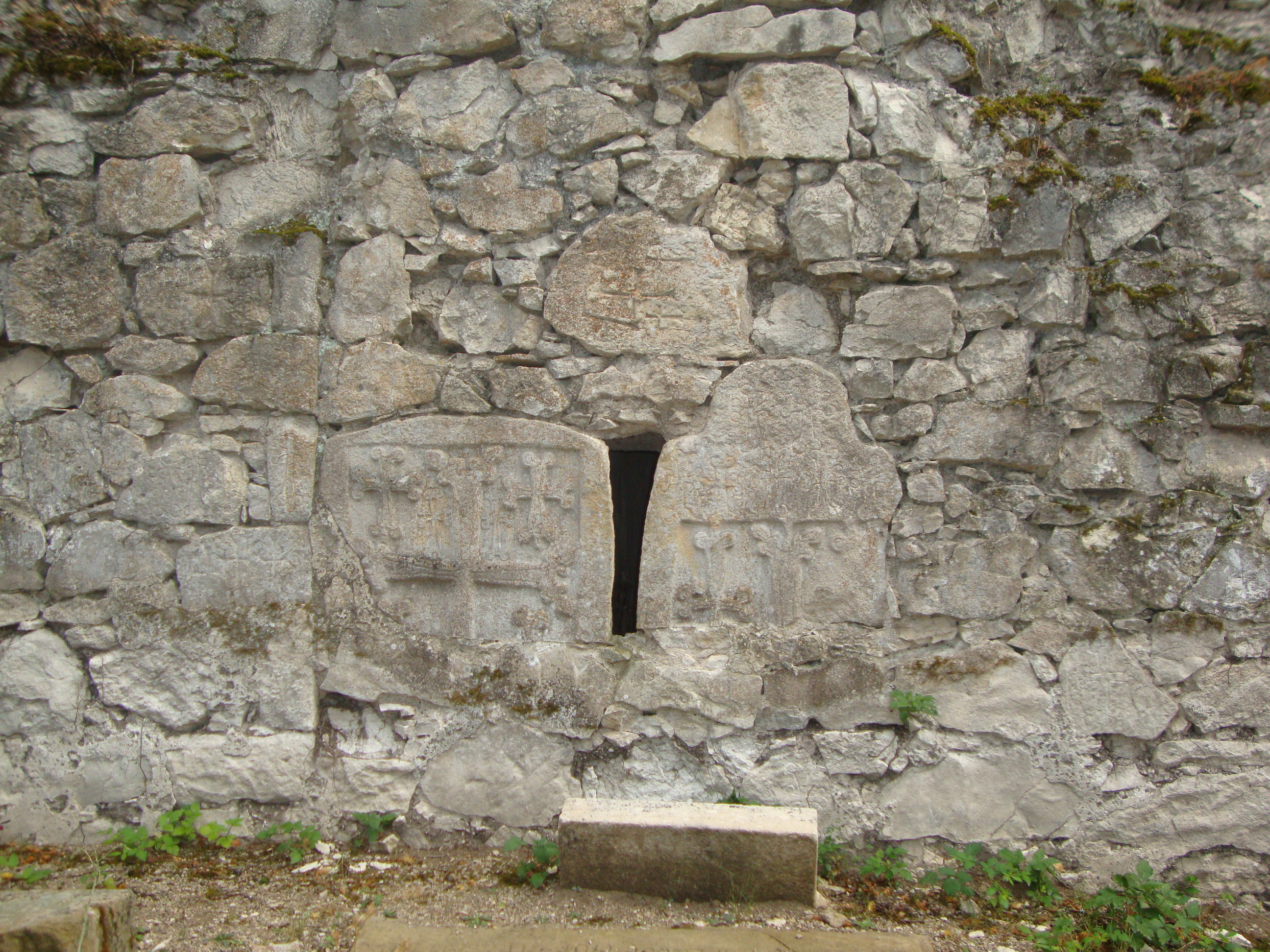 Horeka Monastery, XIII c.